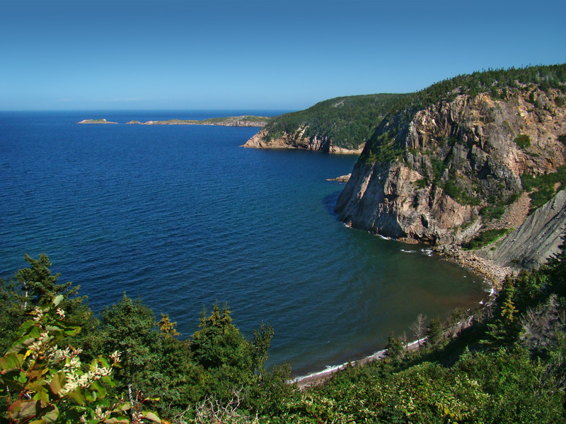 Smelt Brook, Cape Breton Island, Nova Scotia, Canada.